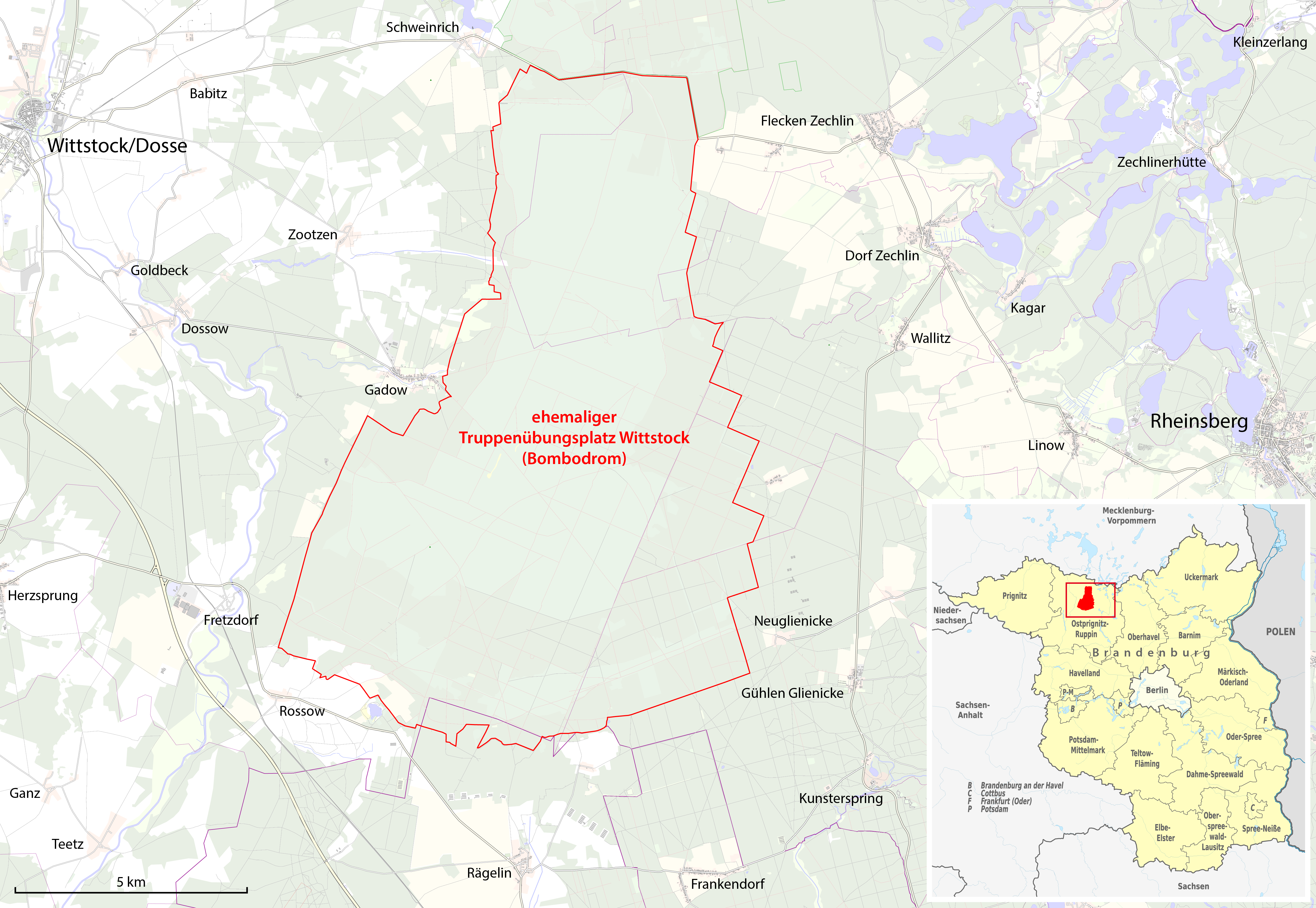 Map of the former Truppenübungsplatz Wittstock, from 1952 to 2011 a proving ground in the German state of Brandenburg